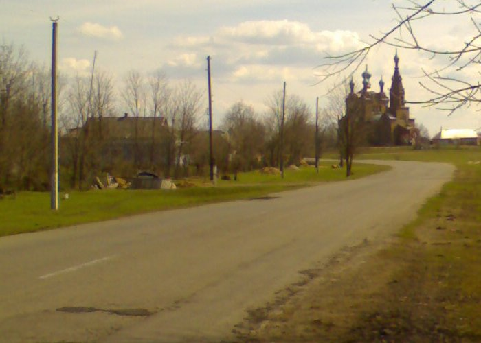 A view of Pokrovka, Liubashivka Raion, Odessa Oblast, Ukraine